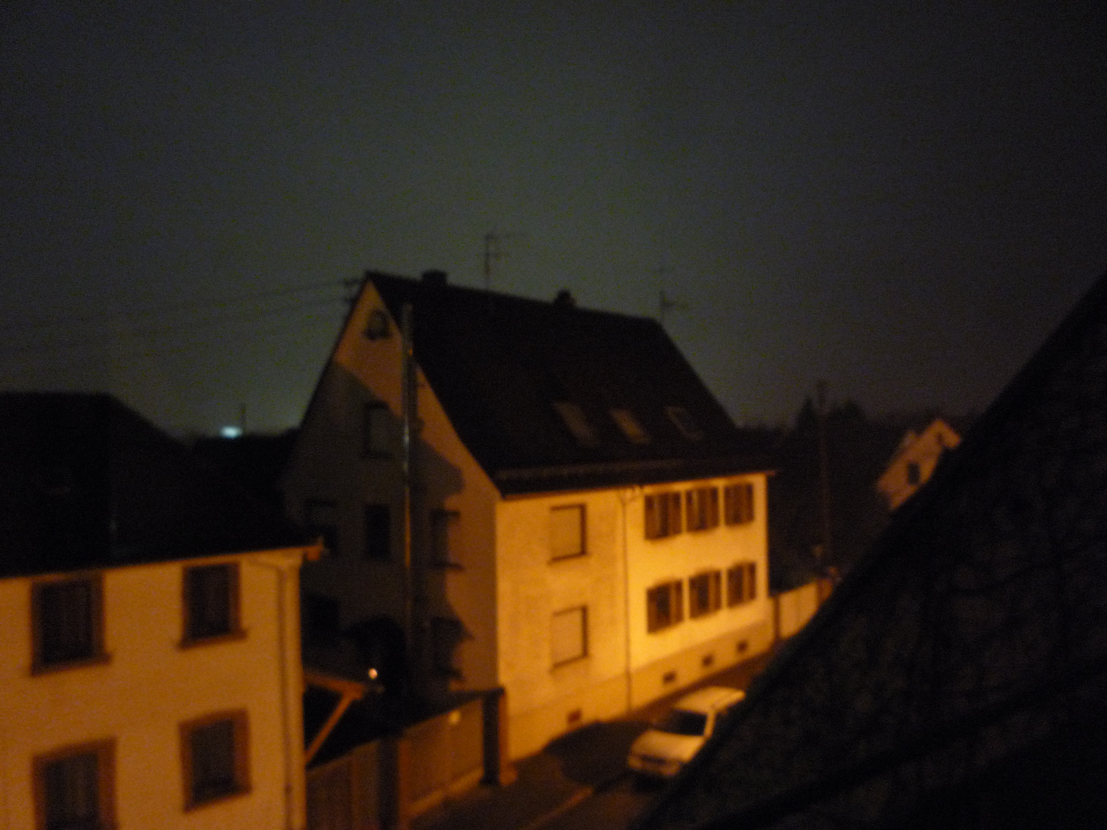 Light pollution in Karlsruhe, Germany (iso-400; 6 seconds)